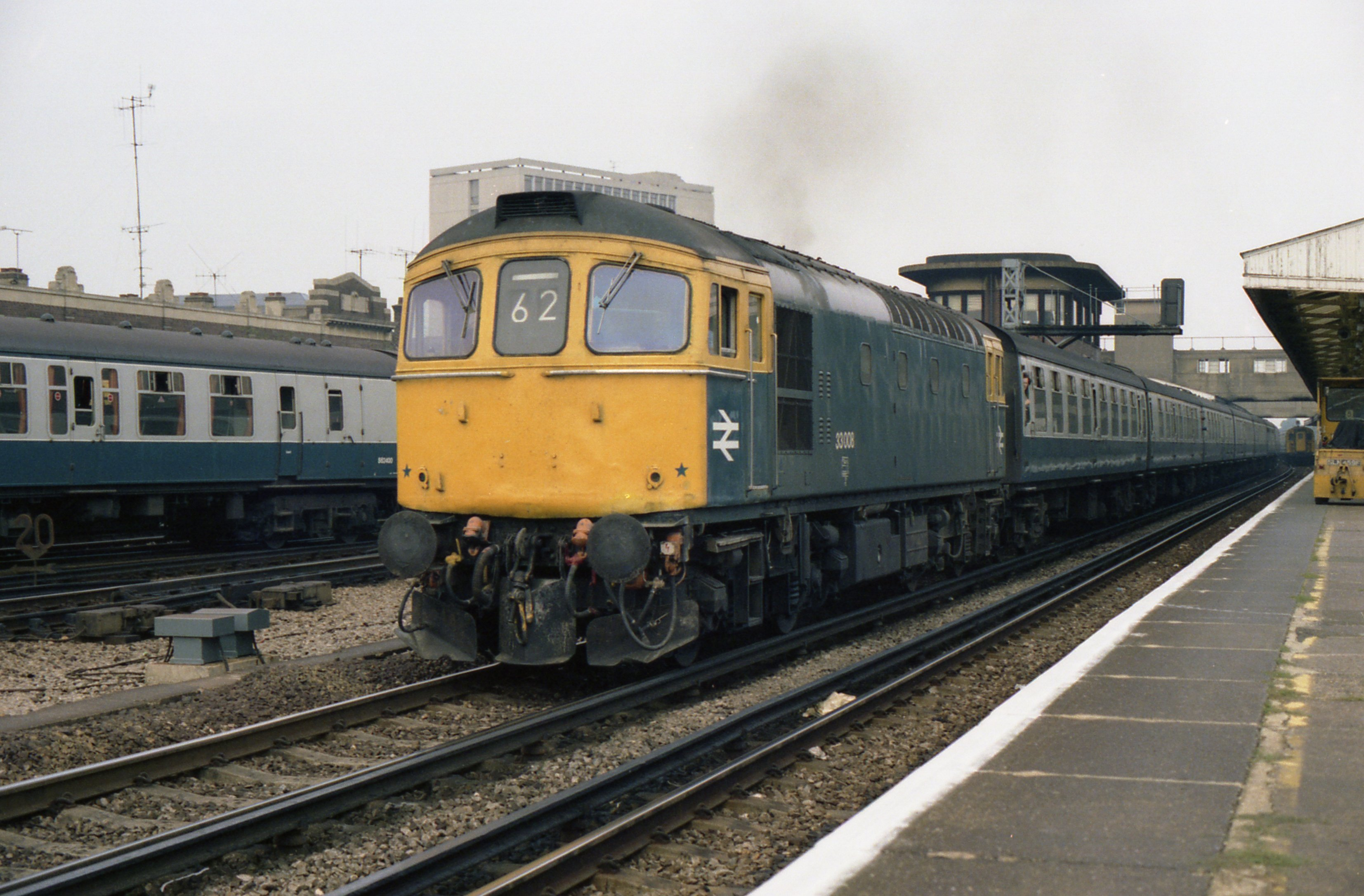 Class 33 No. 33 008 accelerates an Exeter train away from Woking, next stop Basingstoke a 24 mile dash. Camera: Olympus OM1 35mm SLR. Film: Fuji.